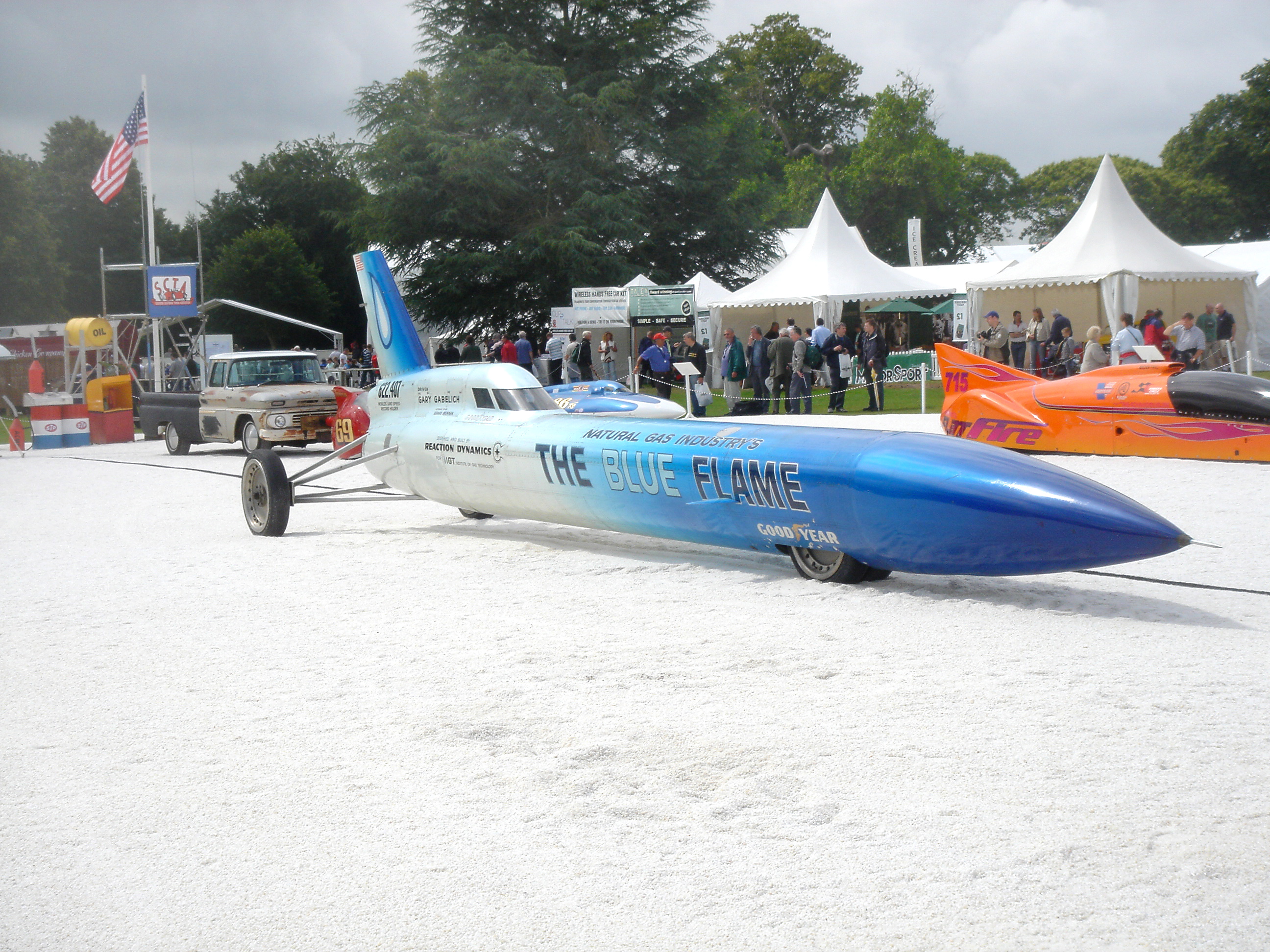 Goodwood Festival of Speed 2007 - world speed record cars, front: "The Blue Flame", rear: "Flatfire" (amber), "Pumpkin Seed" (blue/white)